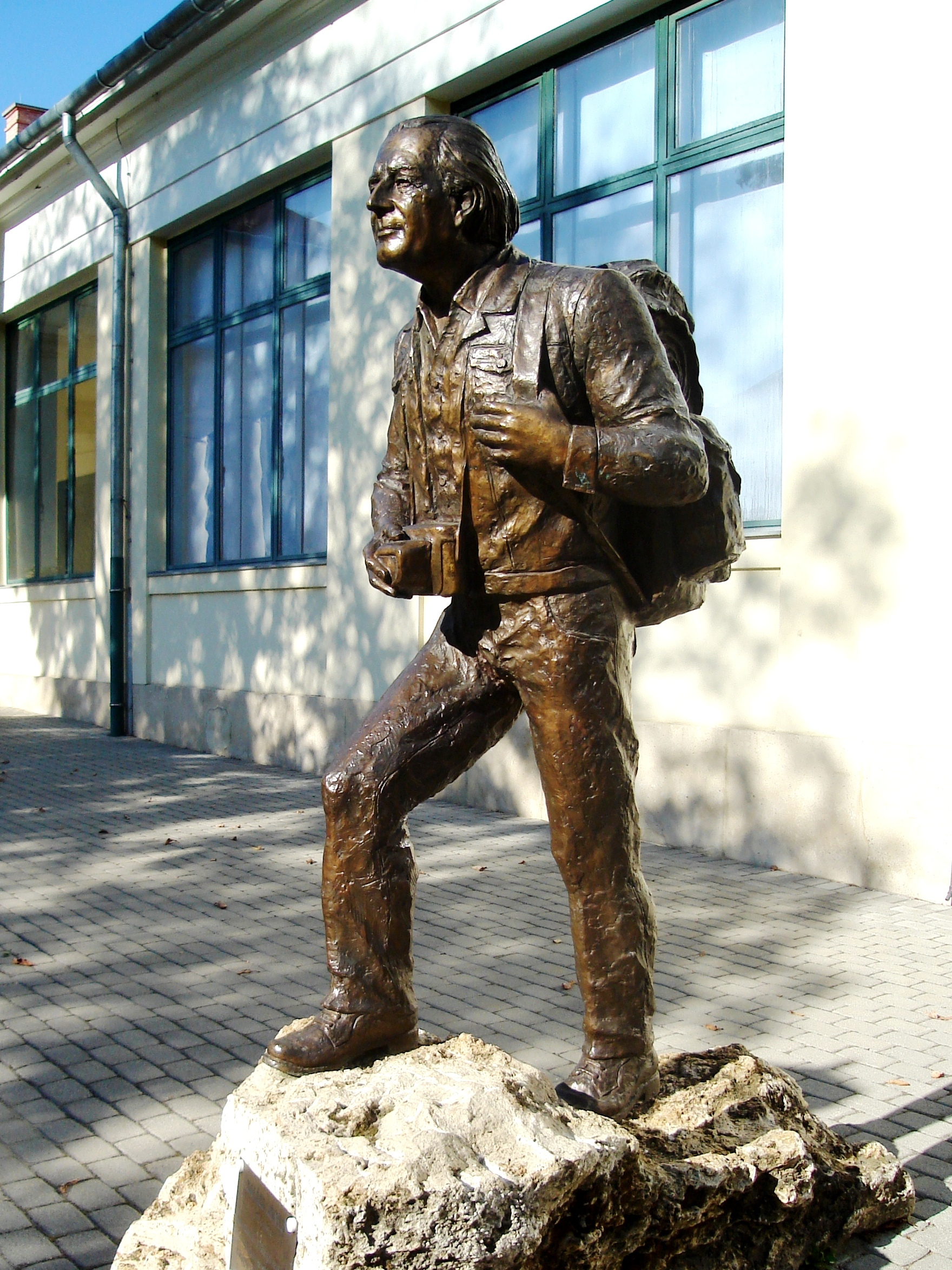 Picture: Statue of the Hungarian geographer Dénes BALÁZS in the garden of the Hungarian Geographical Museum (Érd, Hungary), created in 1999 by sculptor Béla Domonkos.Taken by User: Fekist